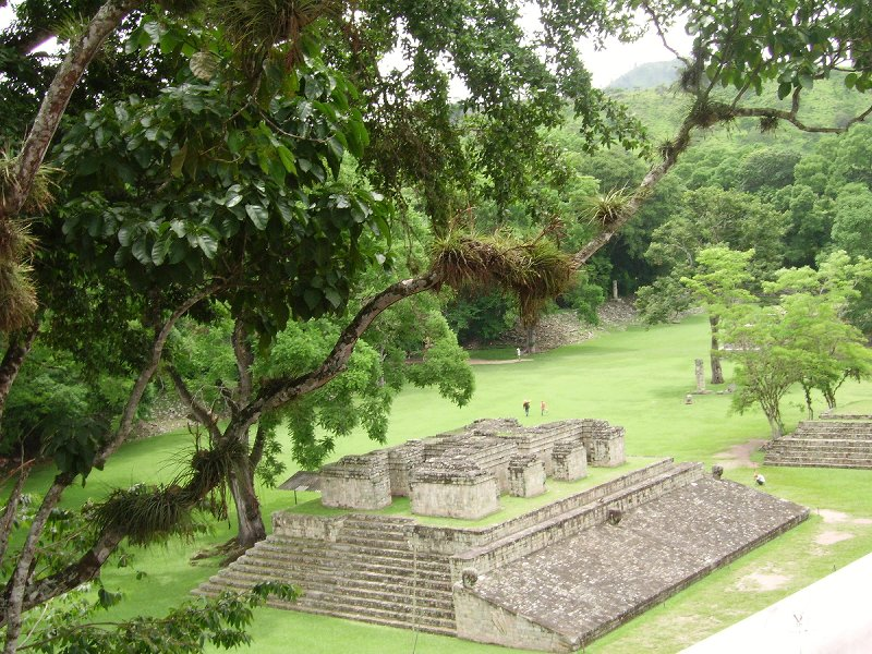 Author: Self, no URL source, ?Public Domain